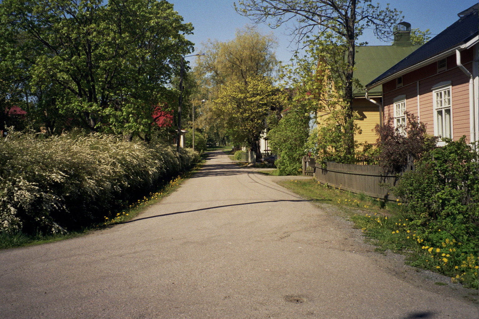 Wooden houses with their surroundings in Viinikka, Tampere, Finland.